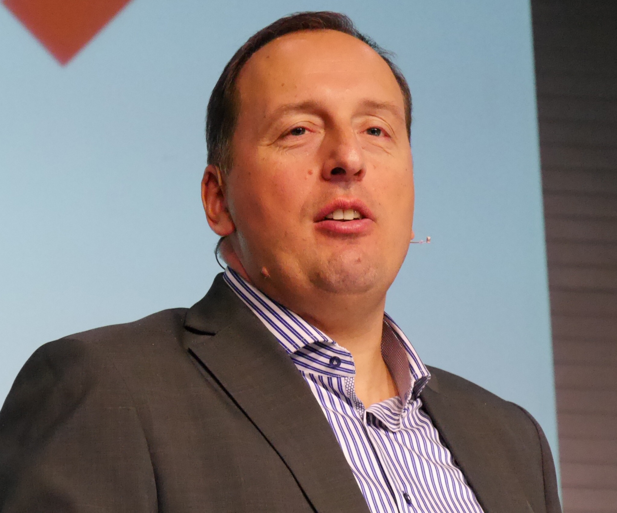 Günther Ottendorfer during a presentation in January 2015.